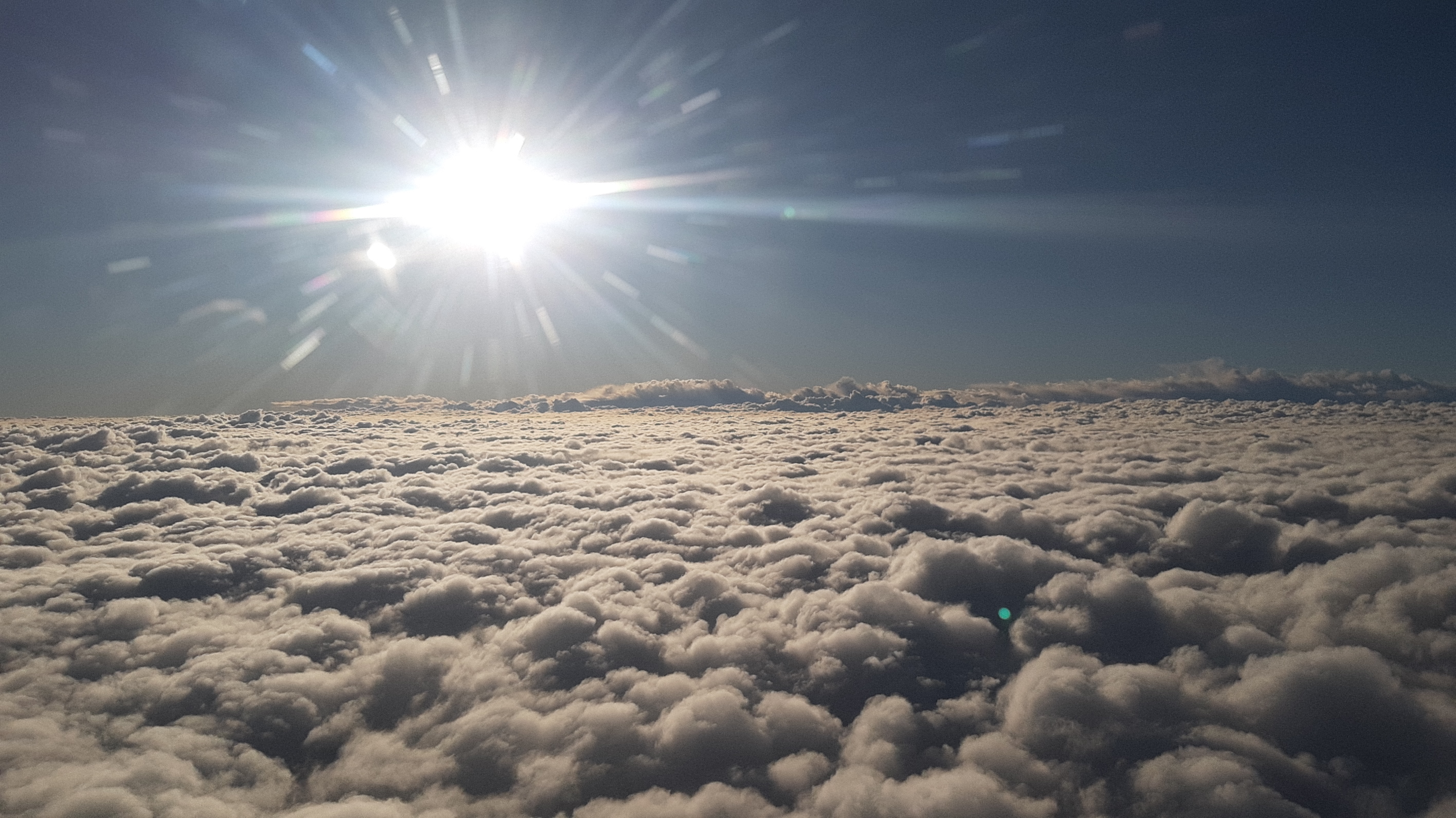 Clouds from the sky